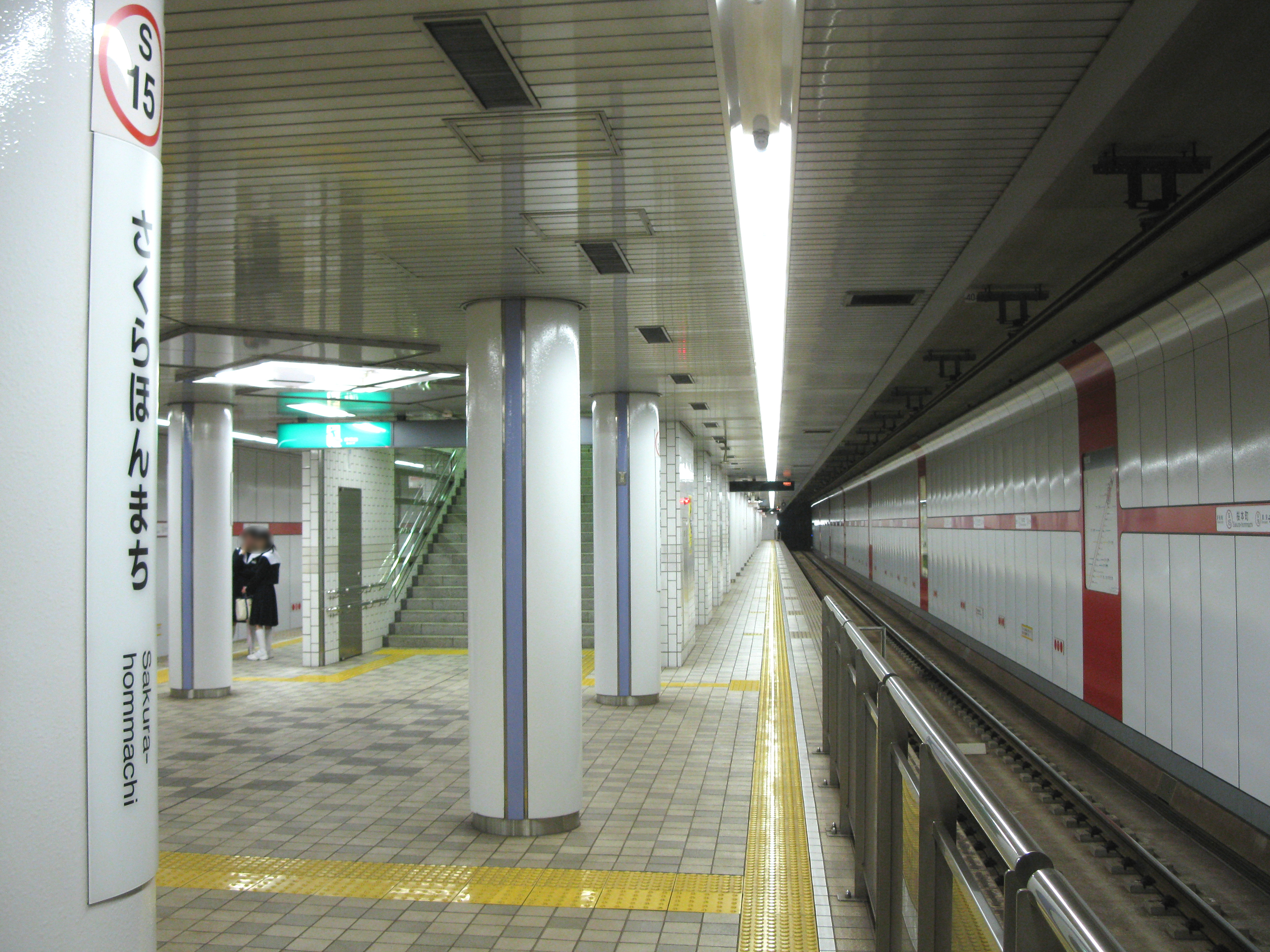 Sakura-hommachi Station platform (Nagoya Municipal Subway Sakura-dōri Line)